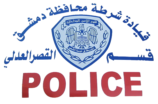 The official emblem of Syrian police in the Damascus Governorate. Top caption: Damascus Governorate Police Department قيا د ة شرطة محافظة دمشق Bottom caption: Department of Justice قسم القصر العدلي Below eagle caption: Police is for the service of people الشرطة في خدمة الشعب